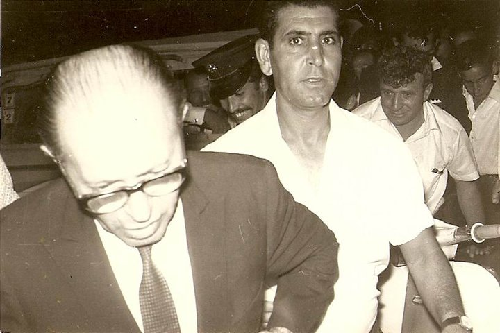 People of Israel